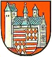 Former Coat of arms of Wippra, Part of Sangerhausen